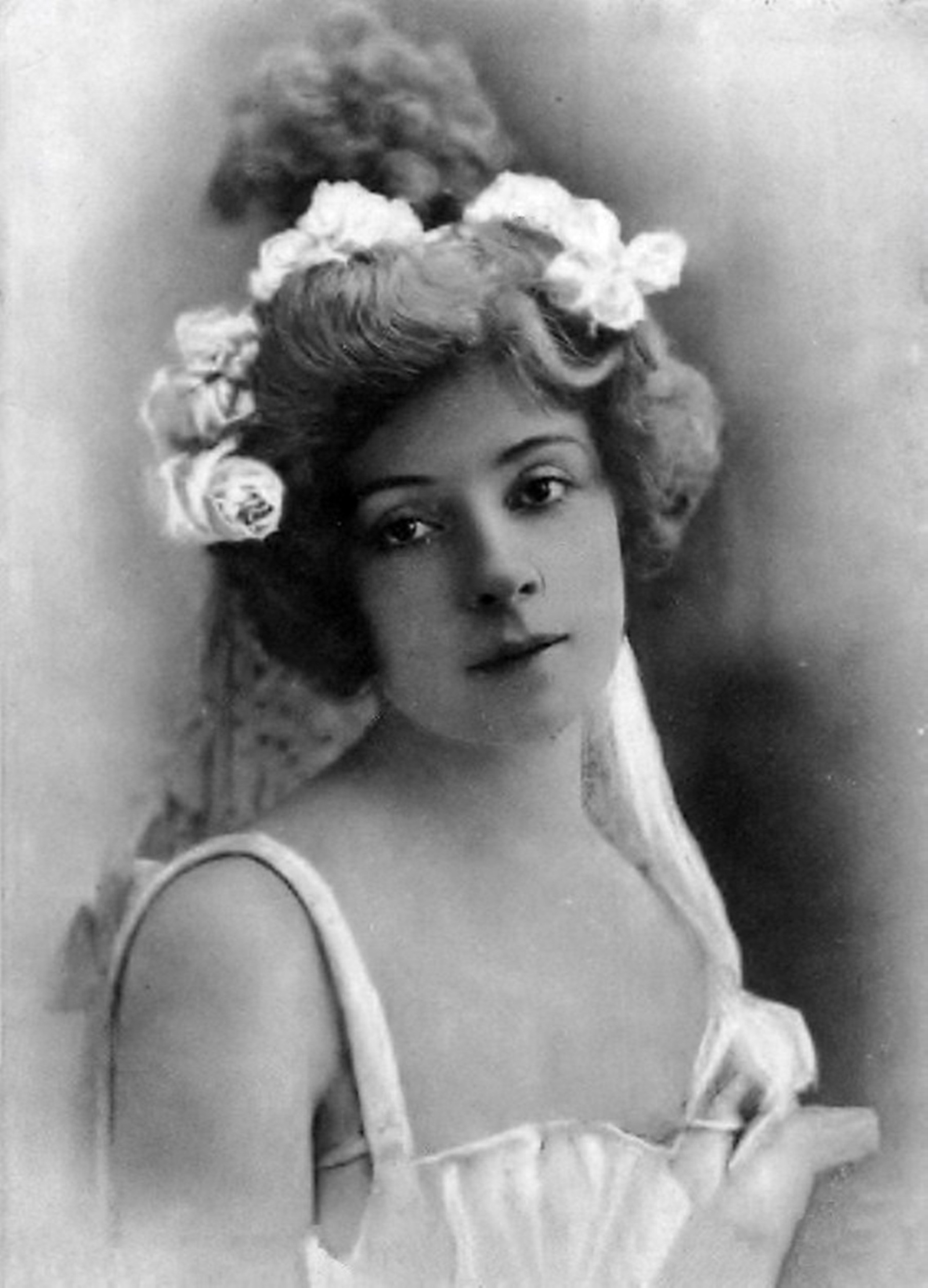 Amélie Diéterle by photographer Léopold-Émile Reutlinger. Amélie Diéterle is a French actress born in Strasbourg on February 20, 1871 and died in Cannes on January 20, 1941. She was legitimated in Paris in 1892 by Captain Louis Laurent, Knight of the Legion of Honor. Amélie Diéterle married in Vallauris on June 16th, 1930 with André Simon (1877-1965). Amélie Diéterle plays mainly at the Théâtre des Variétés in Paris during the Belle Époque. She was represented here in the opéra-bouffe : « Labours of Hercules » by Gaston-Arman de Caillavet and Robert de Flers, on a music by Claude Terrasse. The role that Amélie Diéterle interprets is that of Queen Omphale.